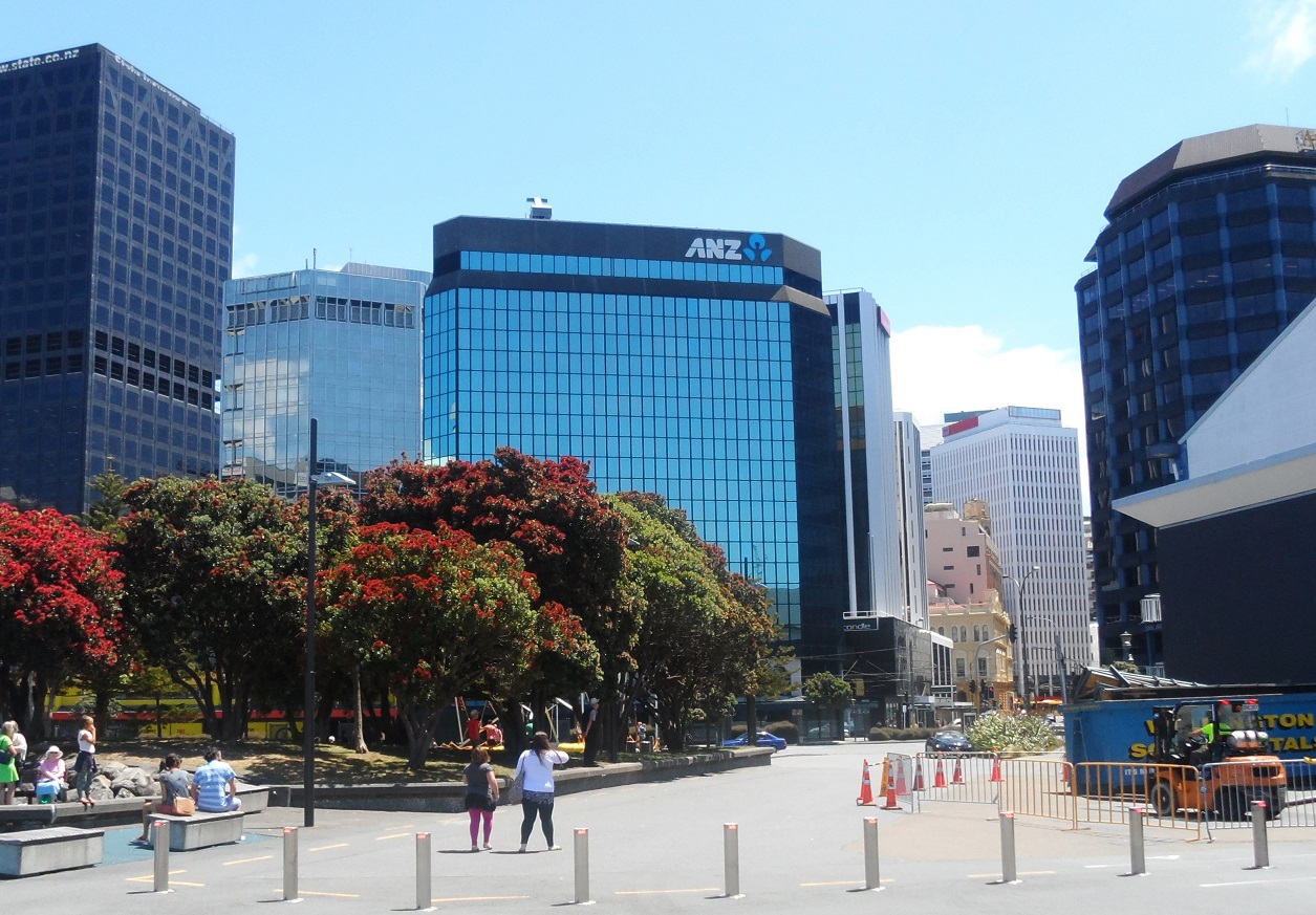 ANZ building at 1 Victoria St in Wellington, New Zealand in 2015.